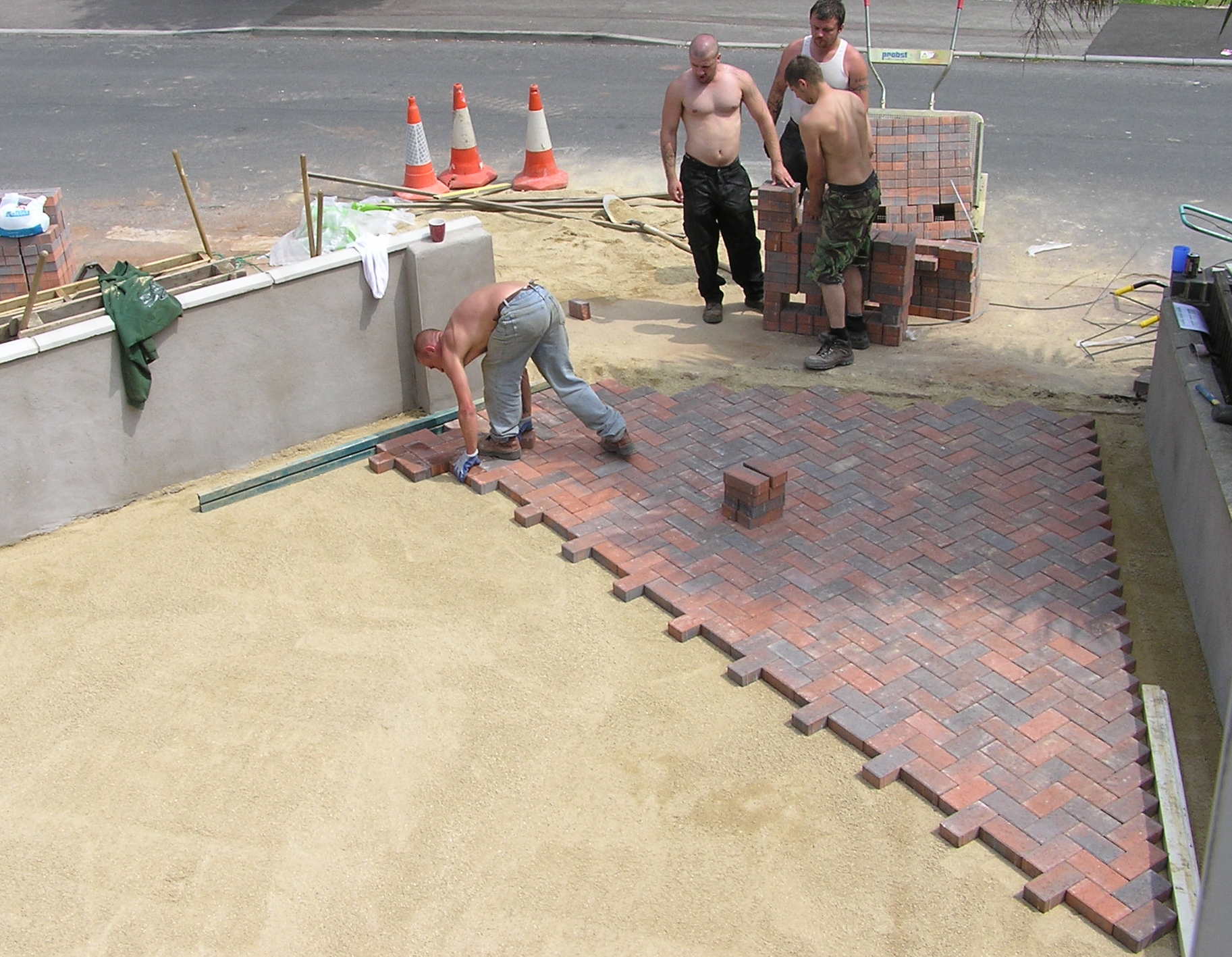 Brick paving being laid on a sand base at a house in Yate, South Gloucestershire, England.